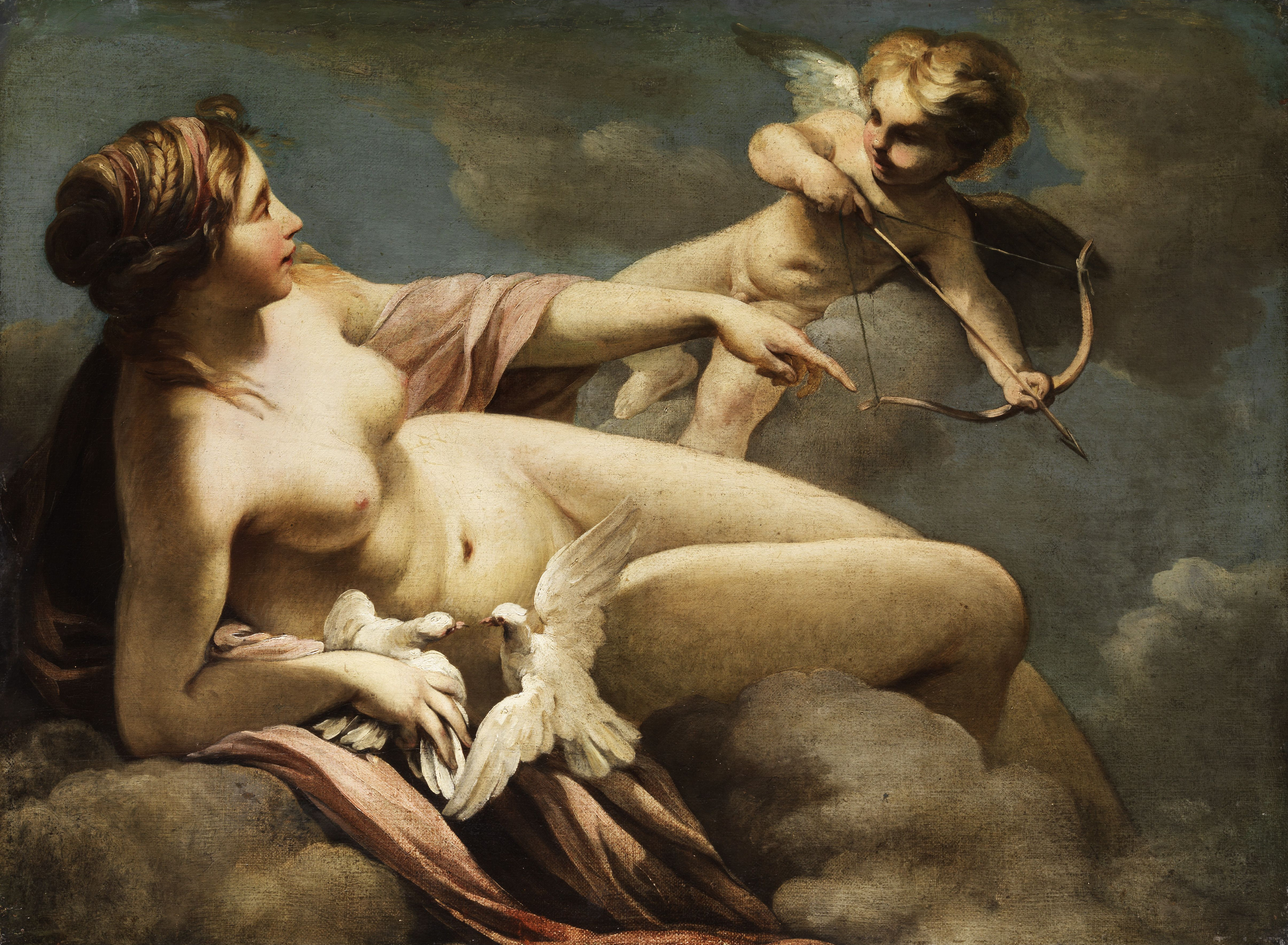 Venus and Cupid. Oil on canvas. 72 x 97 cm.